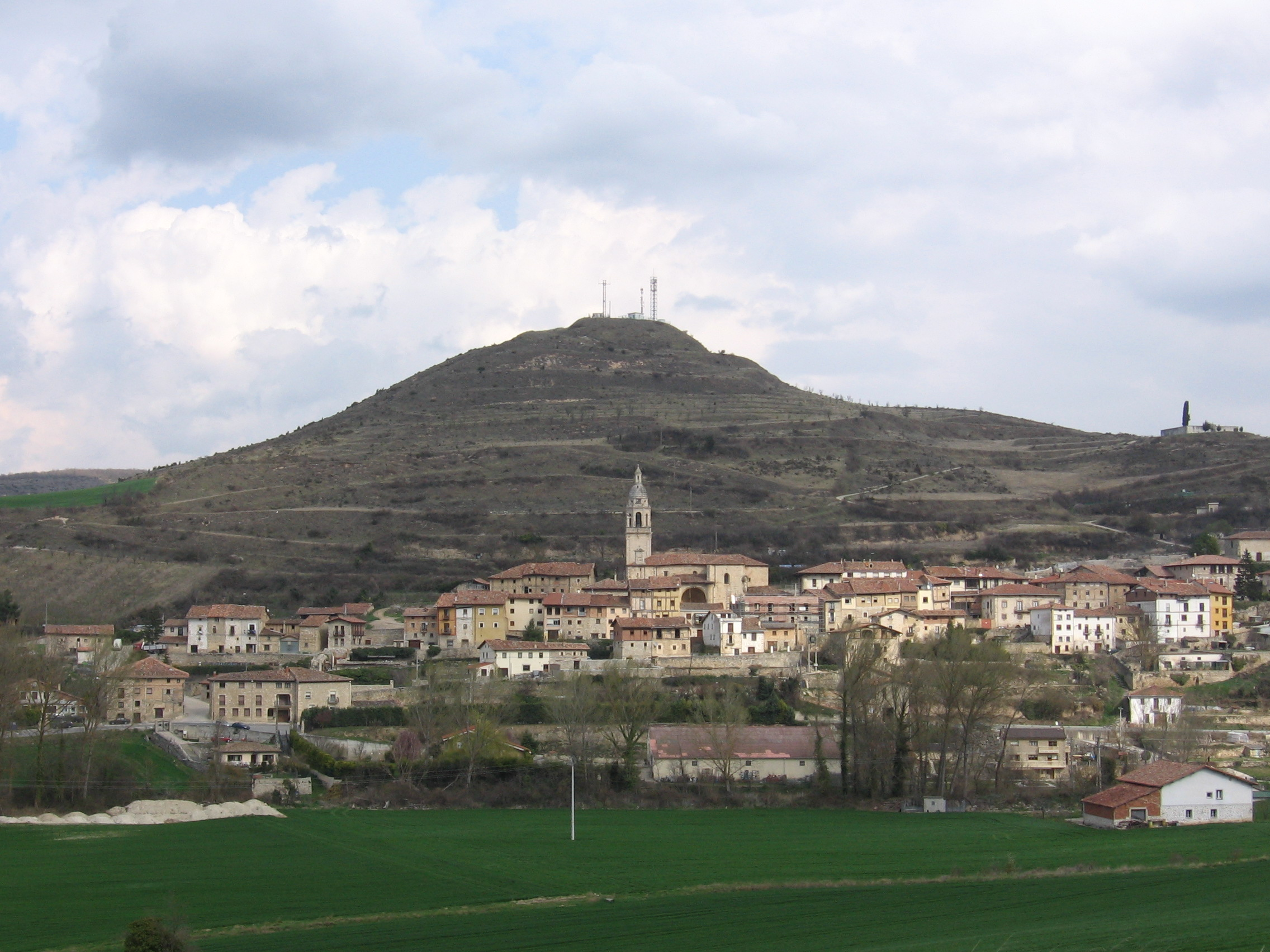 Treviño village, Treviño county, Burgos, Spain